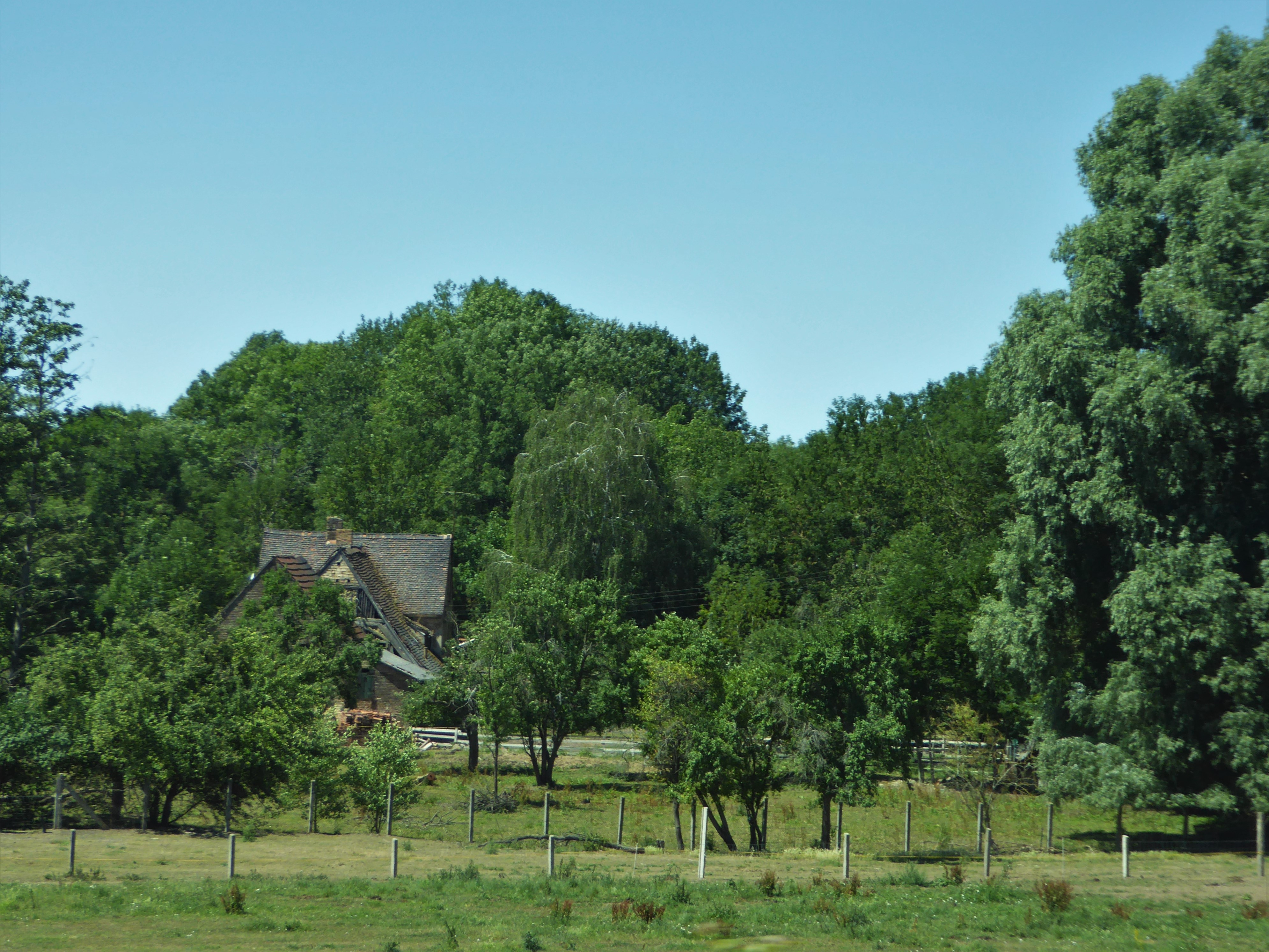 Fuchsmühle nearby Nehlitz, Petersberg, Saalekreis, Saxony-Anhalt, Germany